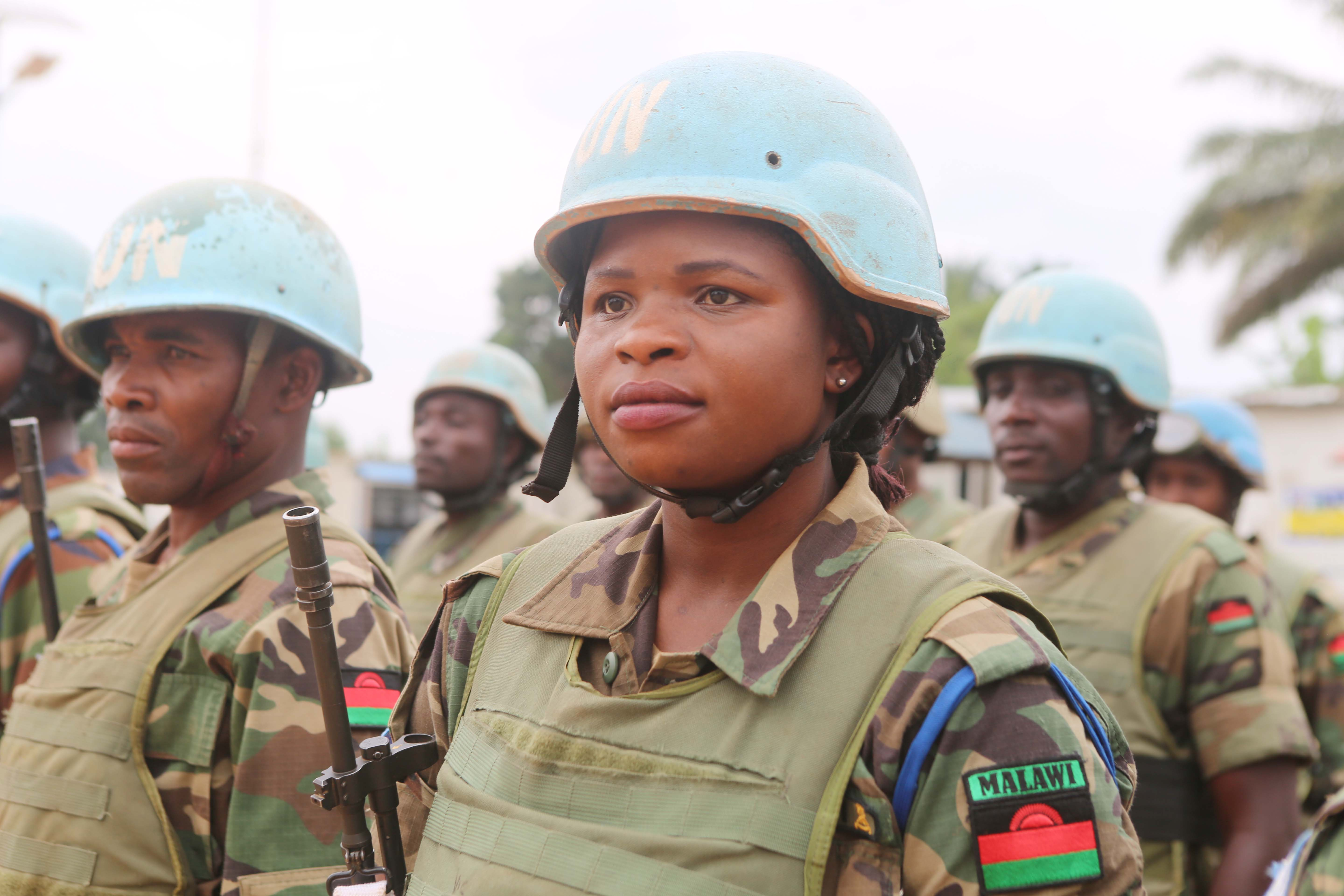 Beni, North Kivu Province , DR Congo: MONUSCO Force Commander Lt. Gen. Elias Rodrigues Martins Filho visited Beni yesterday 20 December 2018 for an operational mission. He was accompanied by several officers from his staff; the objective of this mission was to interact with the Force Intervention Brigade (FIB). On this occasion, he granted an interview to Radio Okapi Beni. Photo MONUSCO / Myriam Asmani